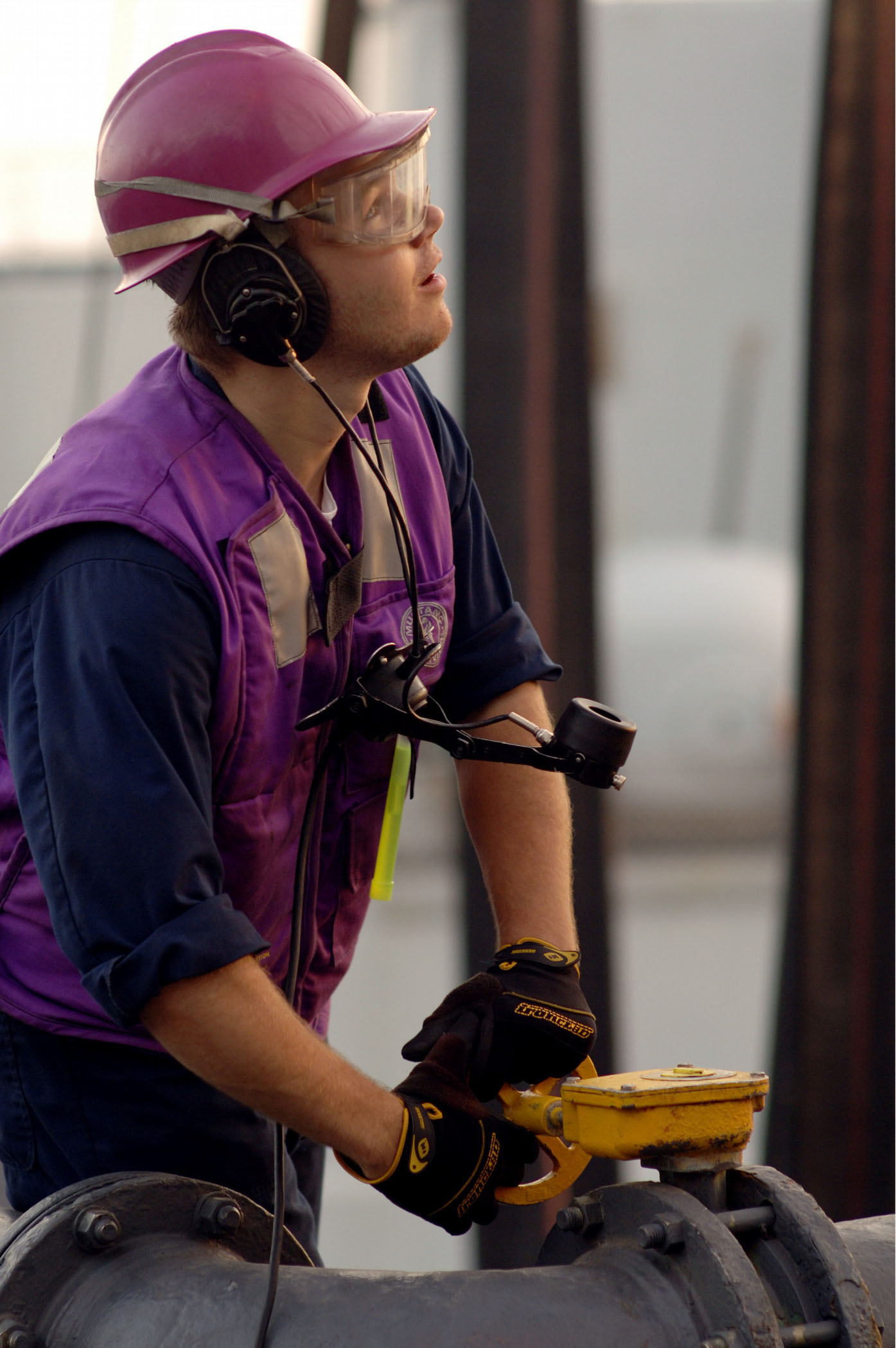 Persian Gulf (June 6, 2005) - Machinist Mate 3rd class Joshua McMichael turns a fuels release valve aboard the fast combat support ship USS Camden (AOE 2) during a replenishment at sea (RAS) with Italian Ship IS Libeccio (F 572). Camden is currently on deployment conducting refueling operations and supporting Maritime Interception Operations (MIO) in the Persian Gulf. U.S. Navy photo by Photographer's Mate 1st Class Aaron Ansarov (RELEASED)